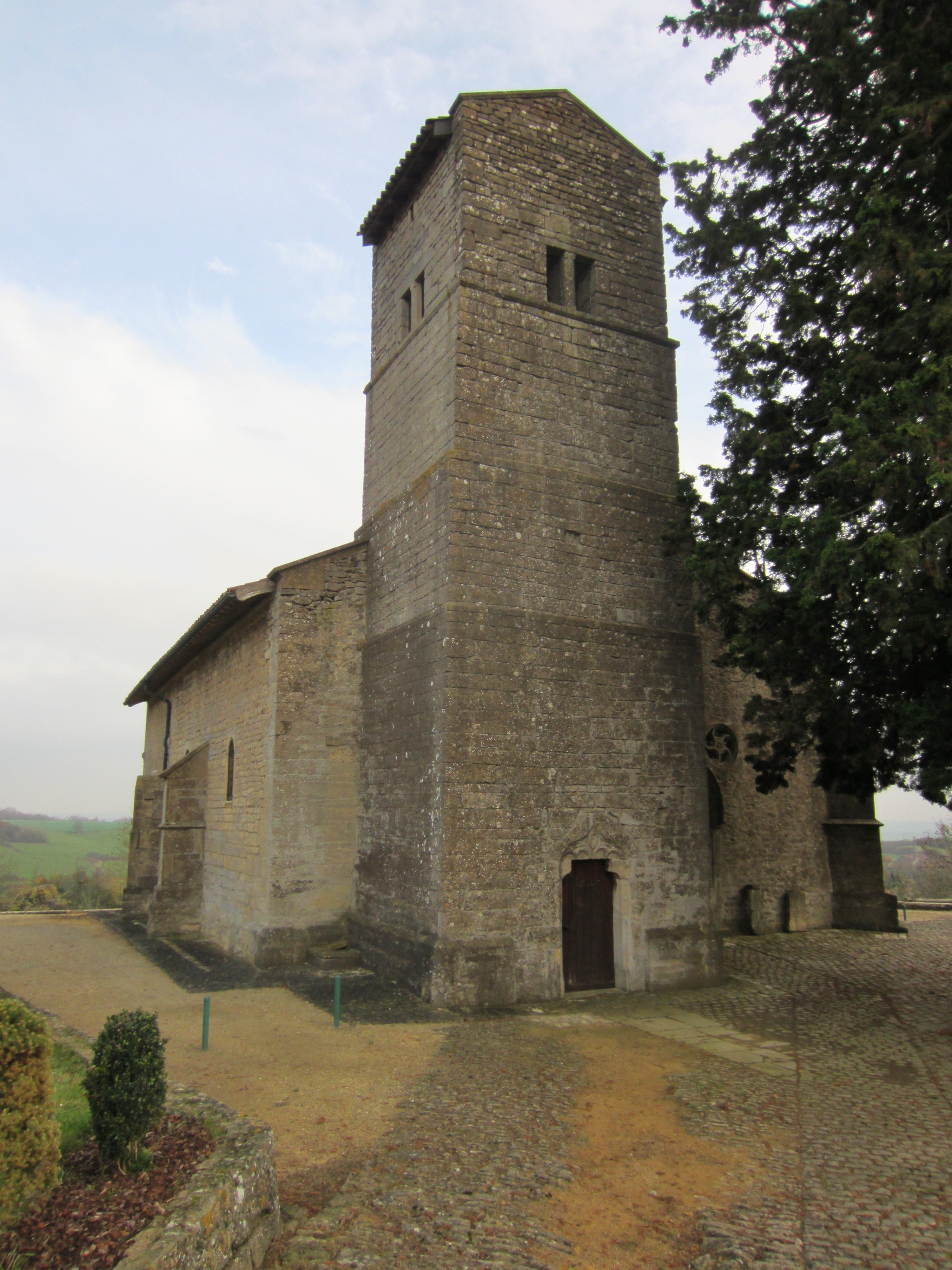 Description chapelle Mont Bonvillers Mont Date8 November 2011Sourcemon appareil photoAuthorAimelaimePermission (Reusing this file) chapelle Mont Bonvillers Mont